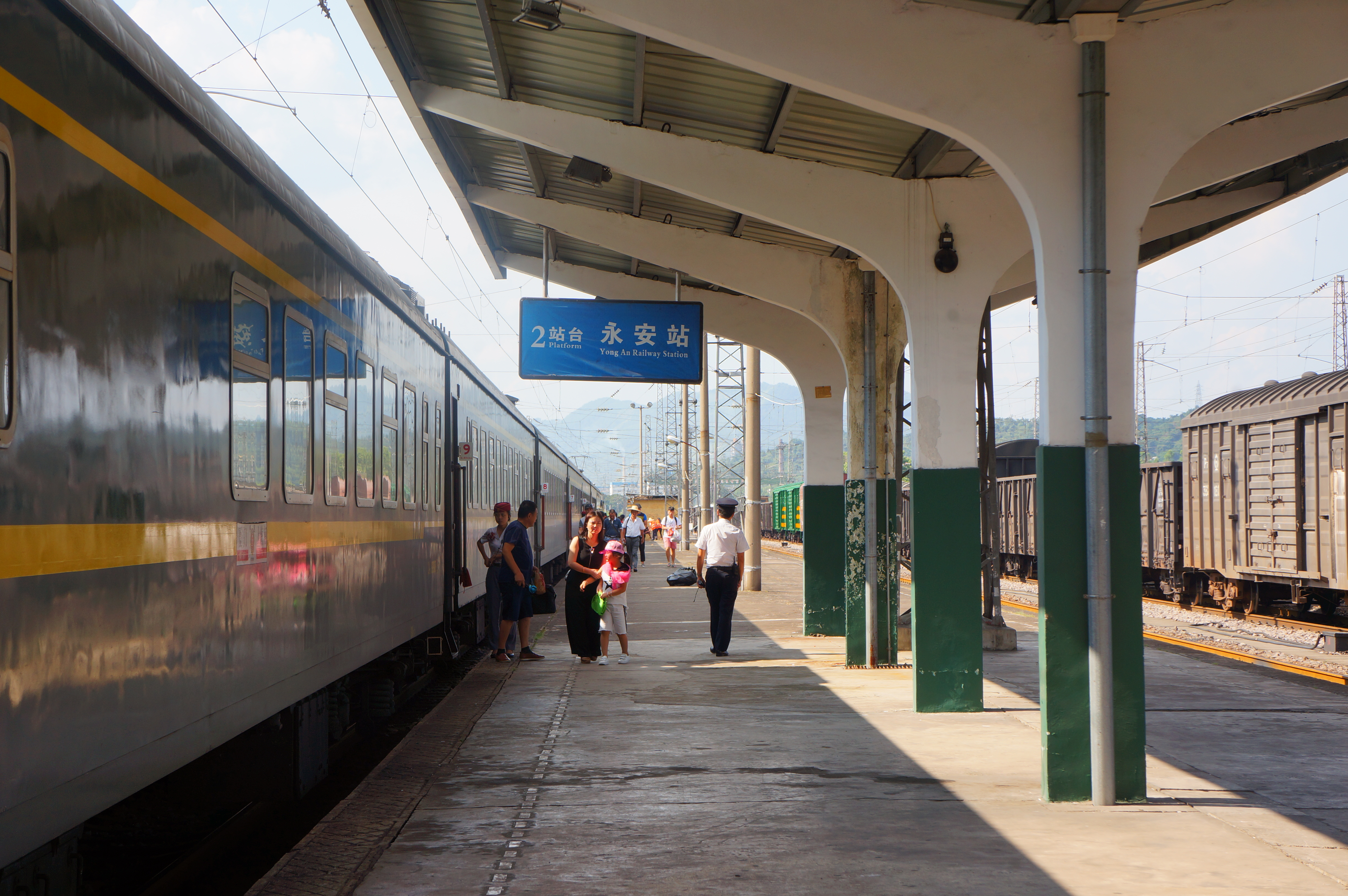 201708 Platform 2 of Yong'an Station